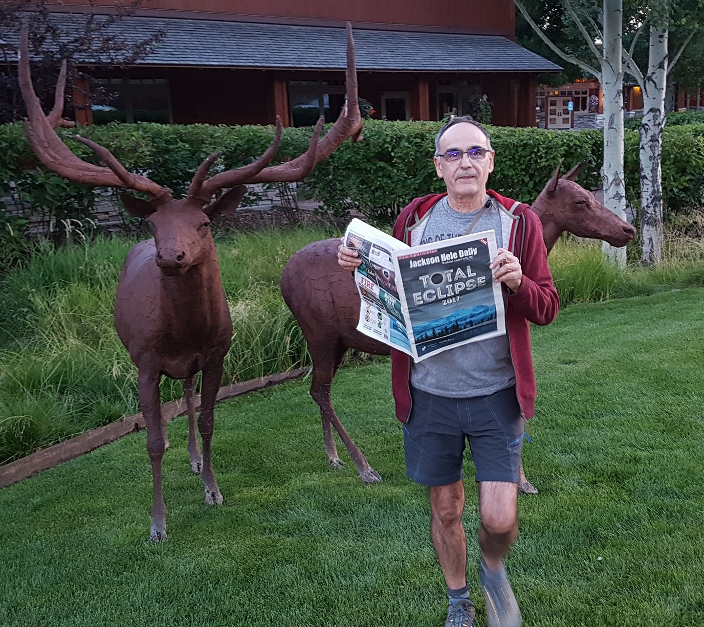 Juan Lacruz, the day before the total solar eclipse on August 2017, Jackson Hole, Wyoming.